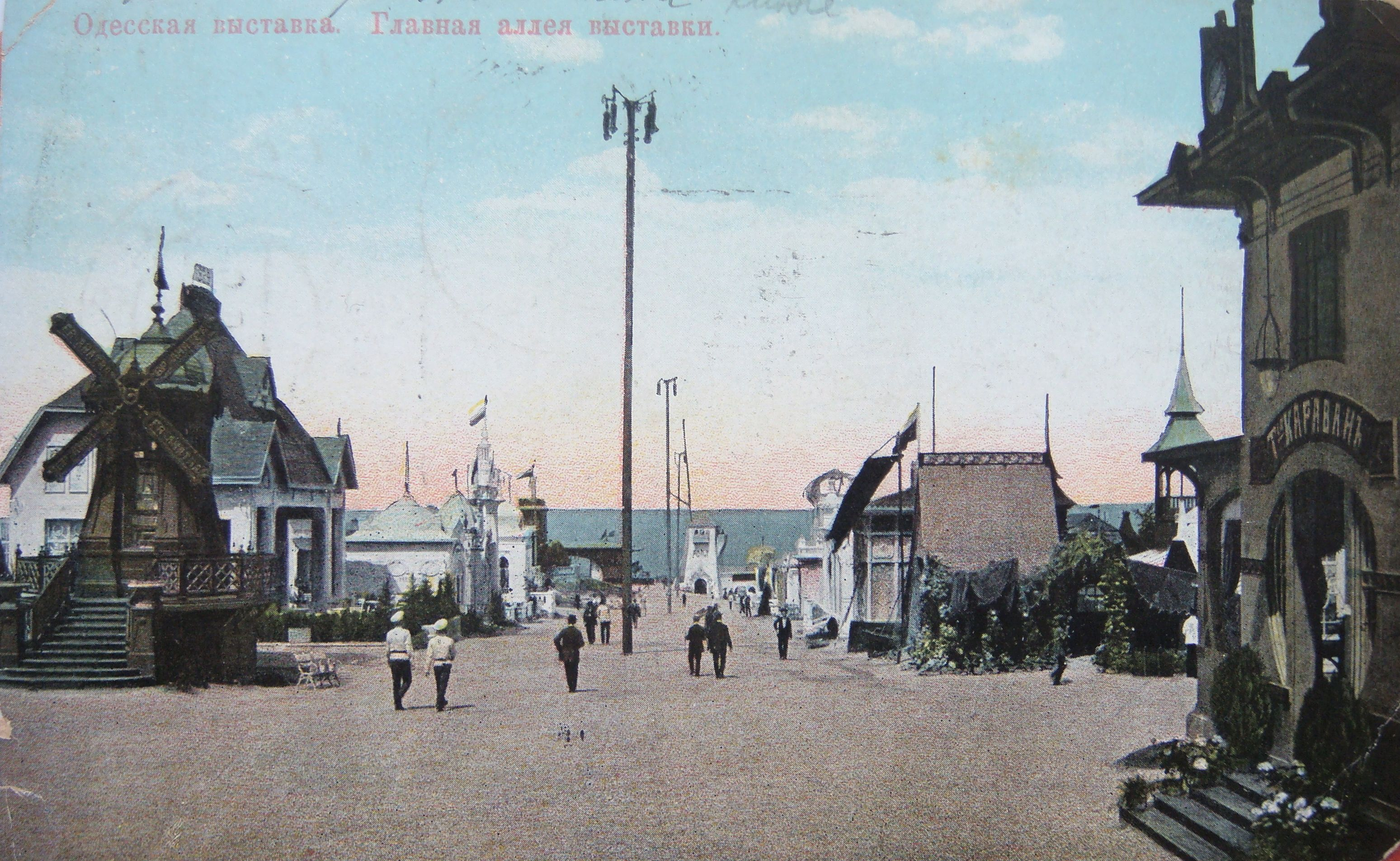 Old Carte Postale (Open Letter) issued in 1910 showed main alley of Odessa Exposition